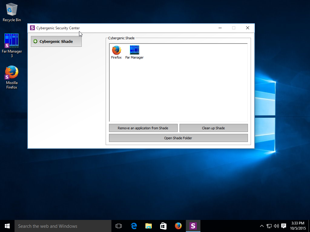 Shade sandbox screenshot